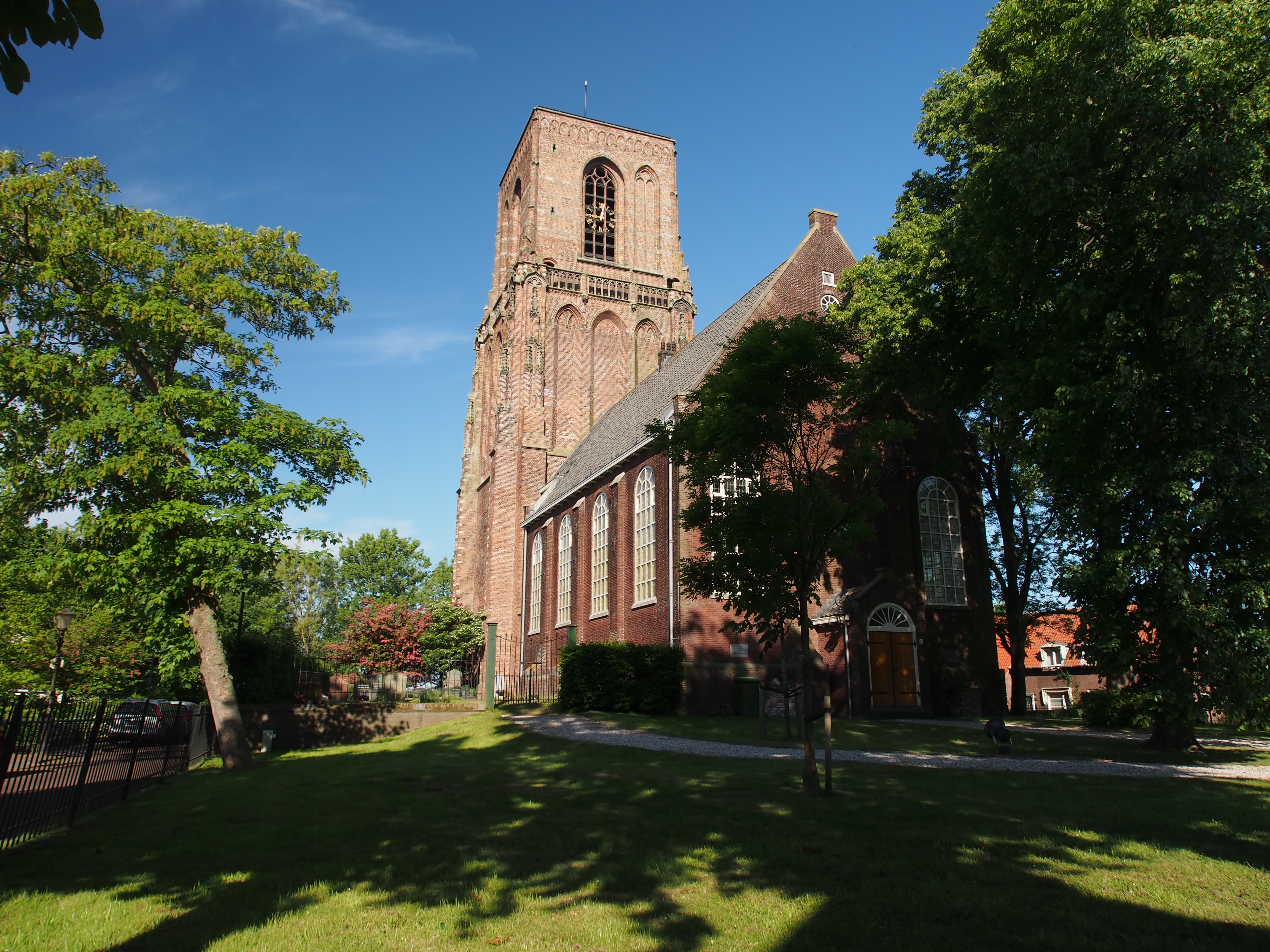 Photographed in Ransdorp, The Netherlands.